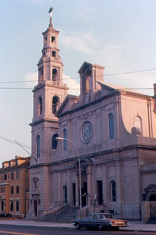 My future wife Eileen attended church at Regina Pacis Votive Shrine, on 65th Street in Brooklyn. There is a smaller parish church in the neighborhood. Regina Pacis was dedicated in 1951. EIleen said that it was designed after a cathedral in Sicily.